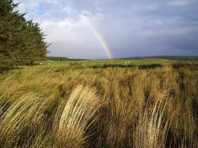 Croft Land And a Rainbow at Achfrish. Taken from the road.